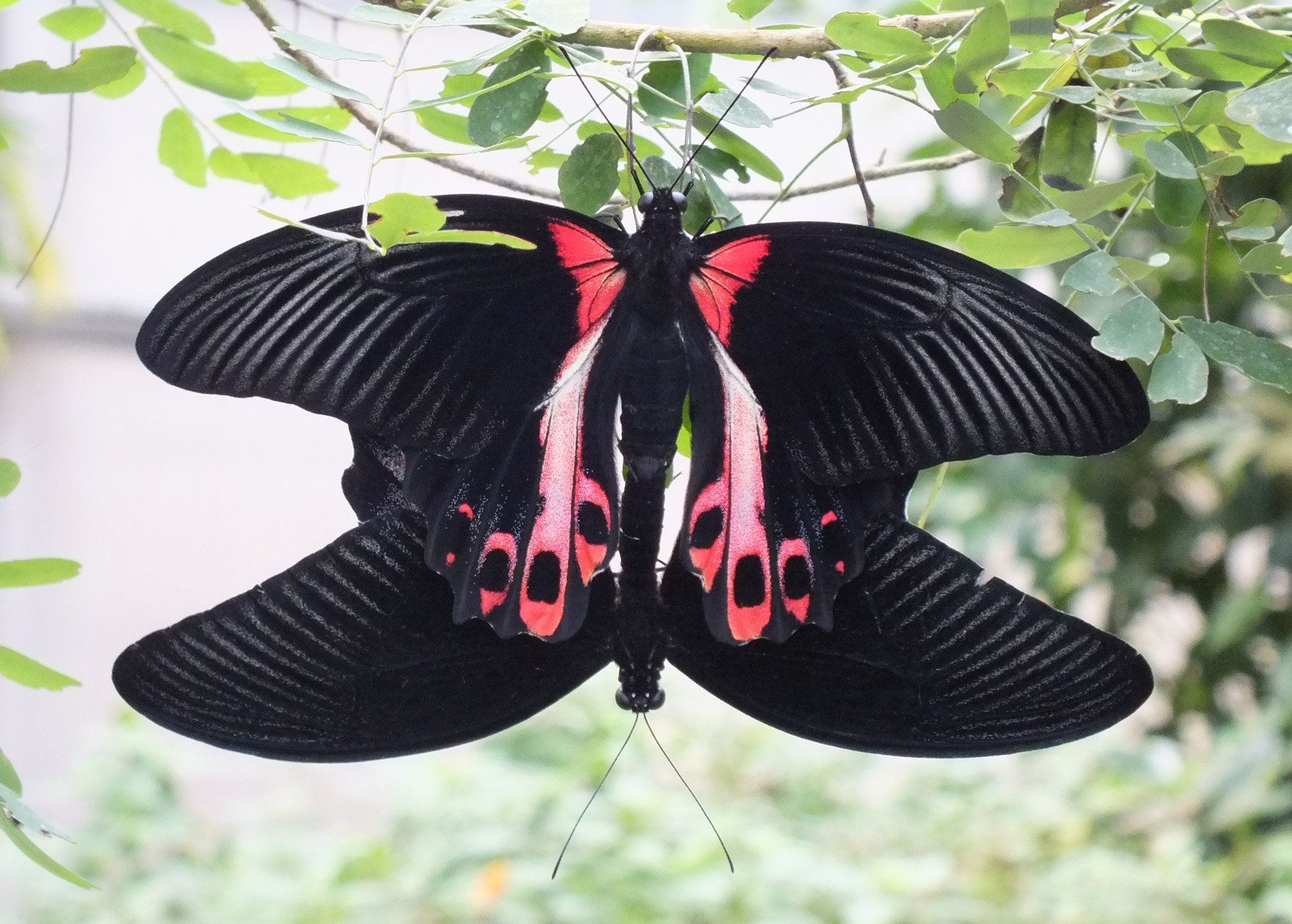 Scarlet Mormon (Papilio deiphobus rumanzovia), mating. Photo taken at Papiliorama in Kerzers, Switzerland.